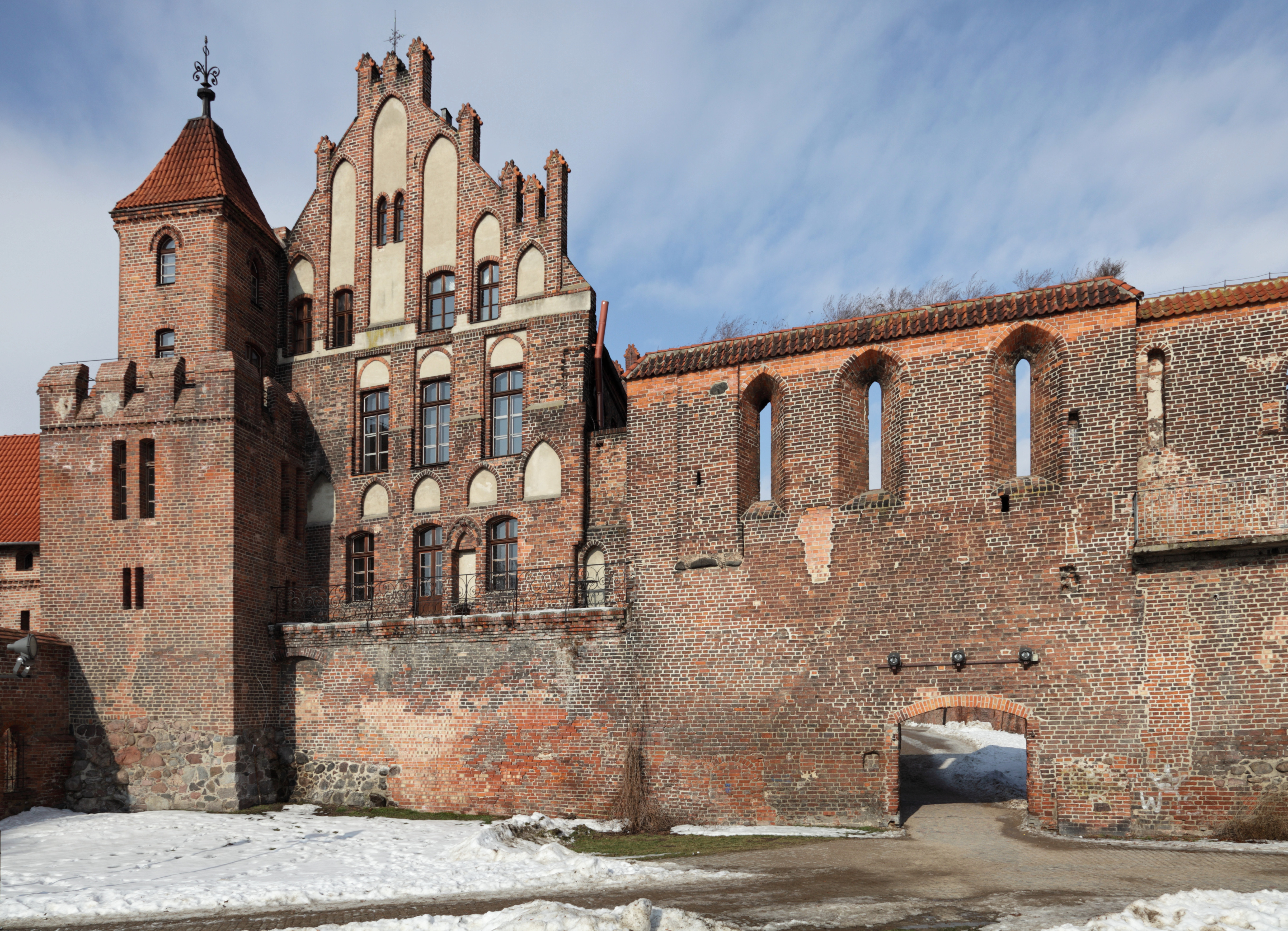 Toruń, St. Goerge Guildhall and Wartownia Watchtower.